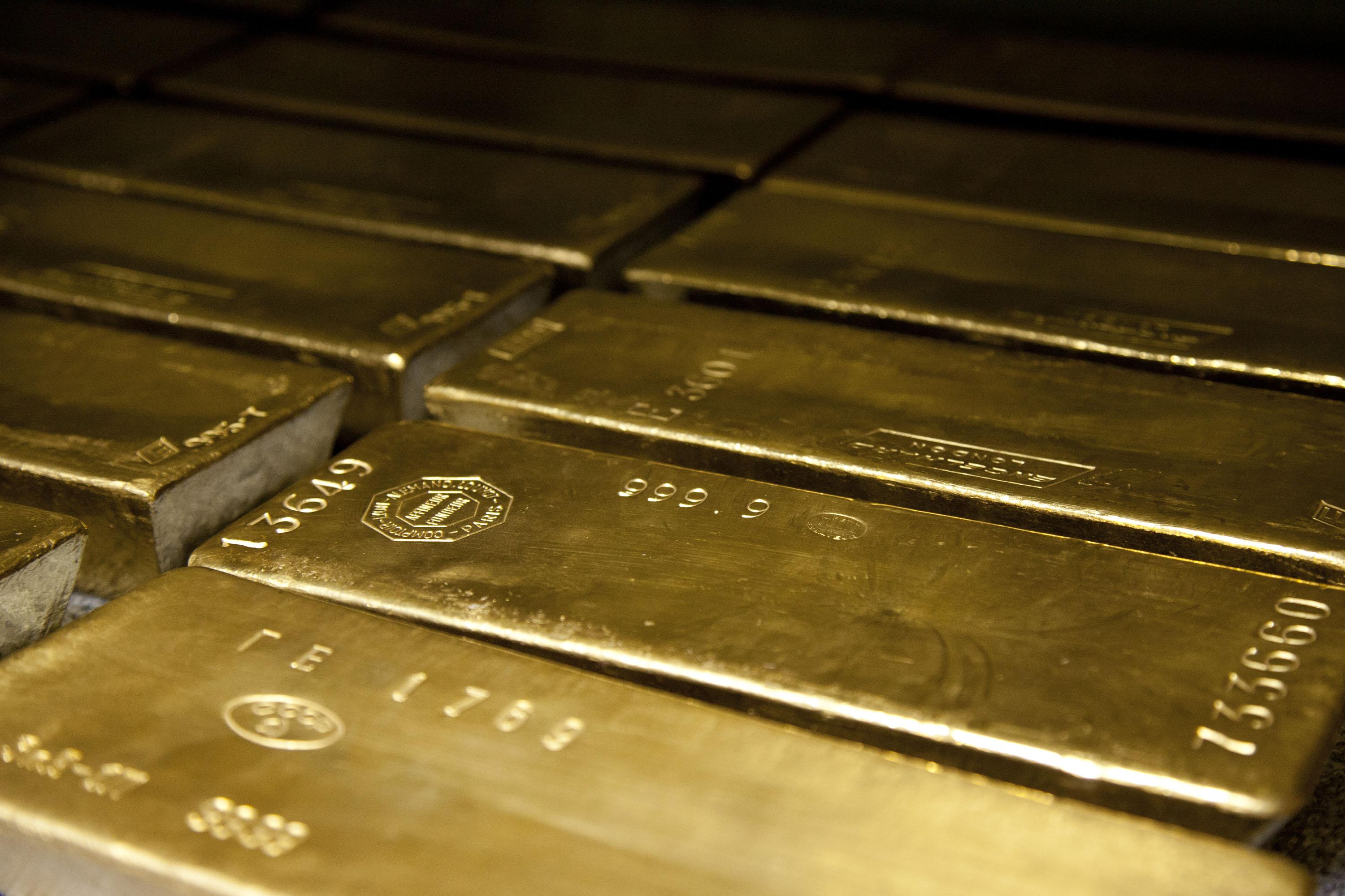 Four nines fine standard 400 oz gold bars.